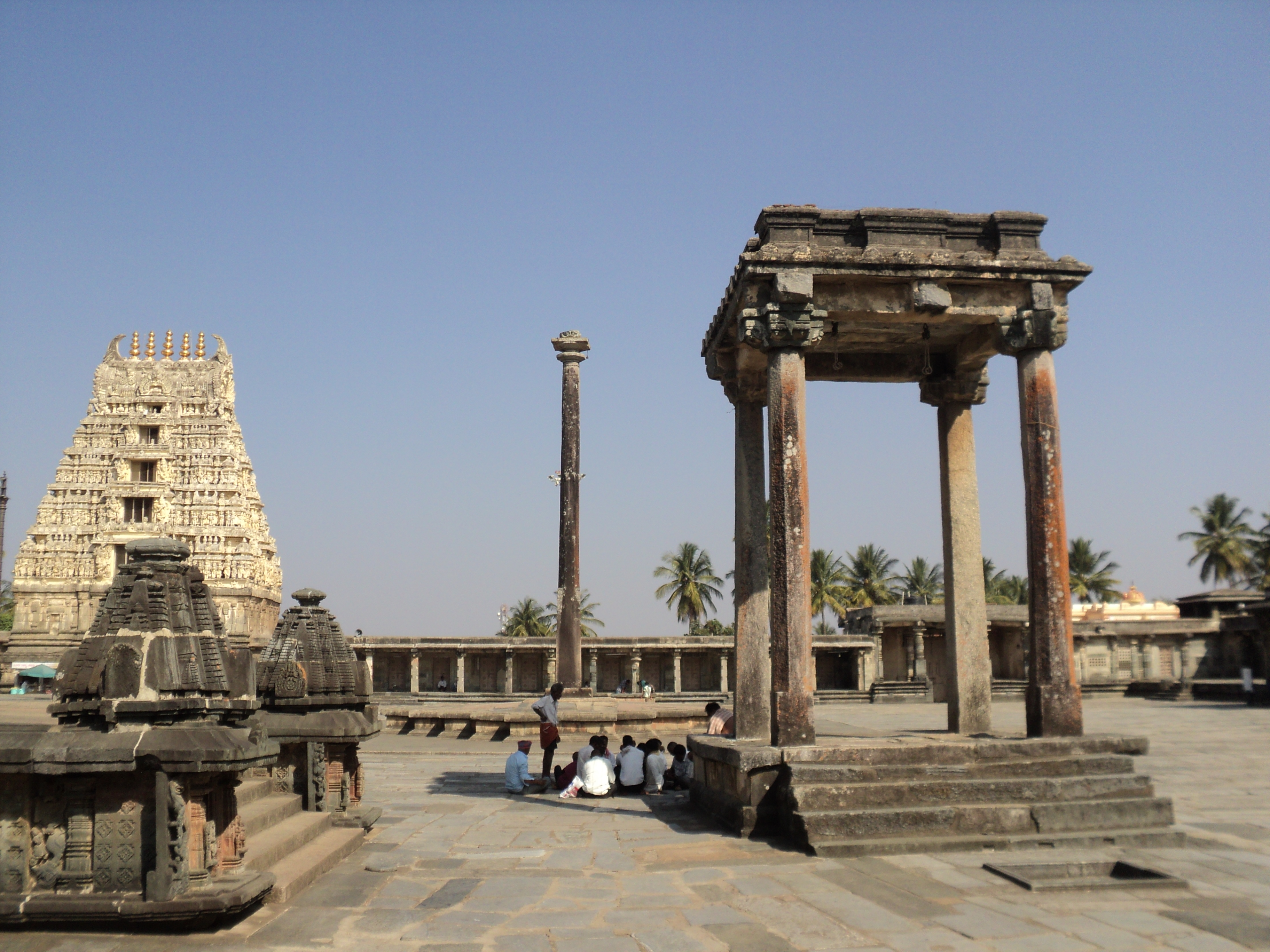 Chennakeshava temple complex